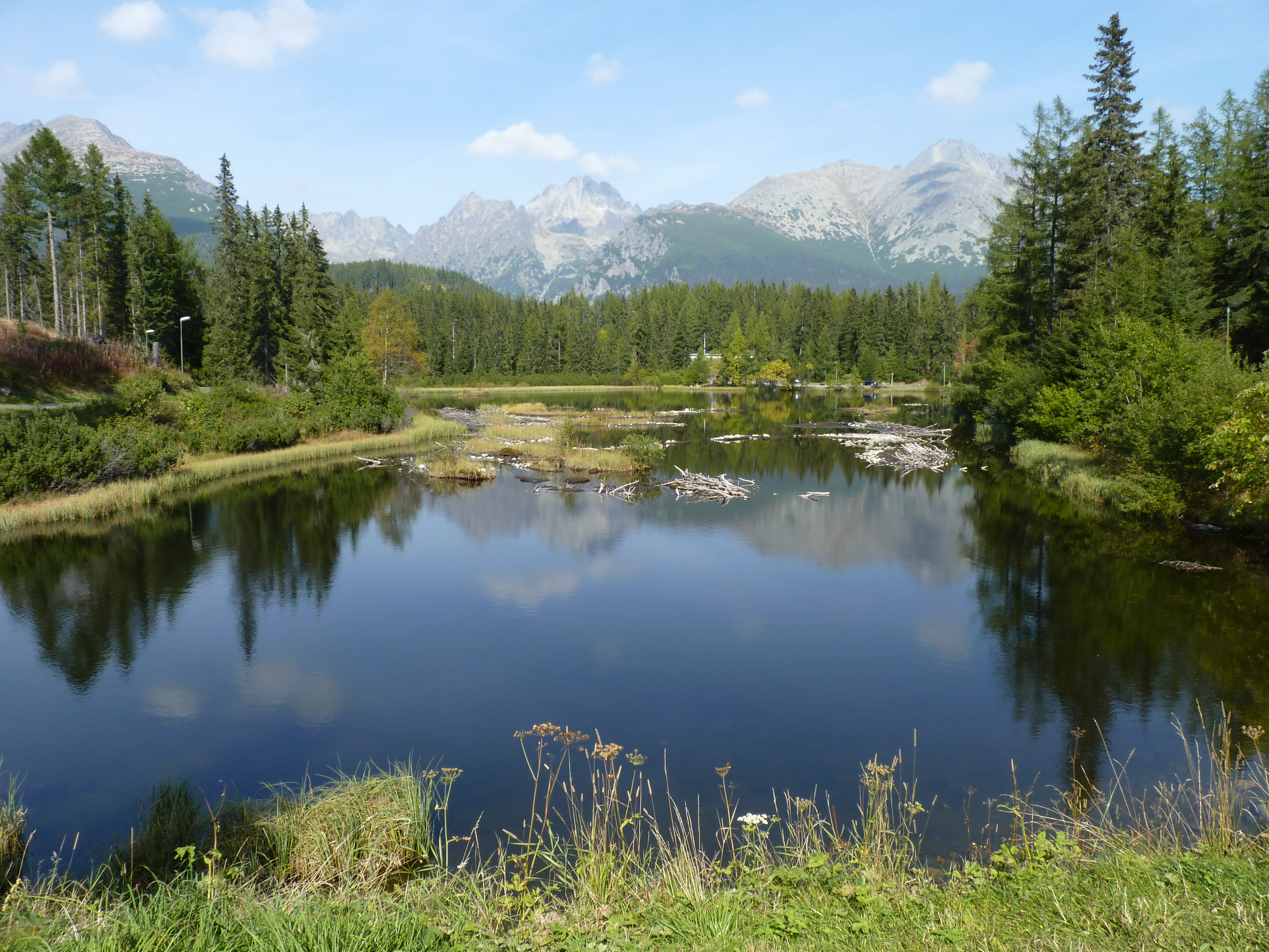 Nové Štrbské lake. The Hight Tatra Mountains, Slovakia